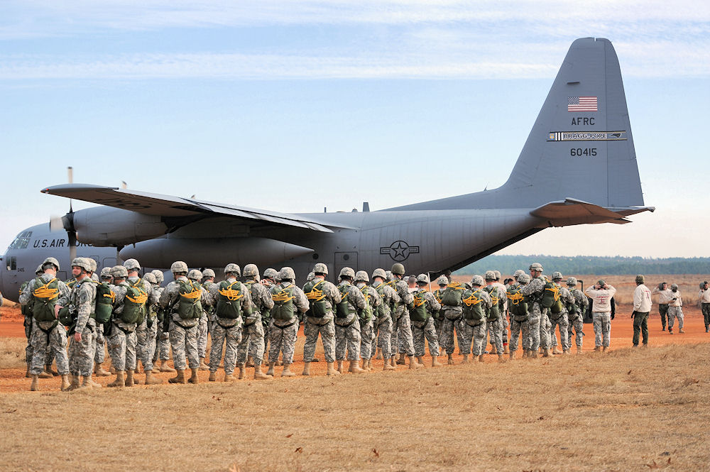 More than 1,000 paratroopers participate in 11th Annual Toy Drop More than 1,000 paratroopers participated in this years 11th Annual Randy Oler Toy Drop on Fort Bragg, N.C. More than 3,000 gifts were collect for this years event that will be distributed to children in the greater Fayetteville community. The event was hosted by the 82nd Airborne and supported by two C-130 aircraft from the 440th Airlift Wing with 16 aircrew members from the 95th Airlift Squadron. (U.S. Air Force Photo/Master Sgt. Kevin Brody)